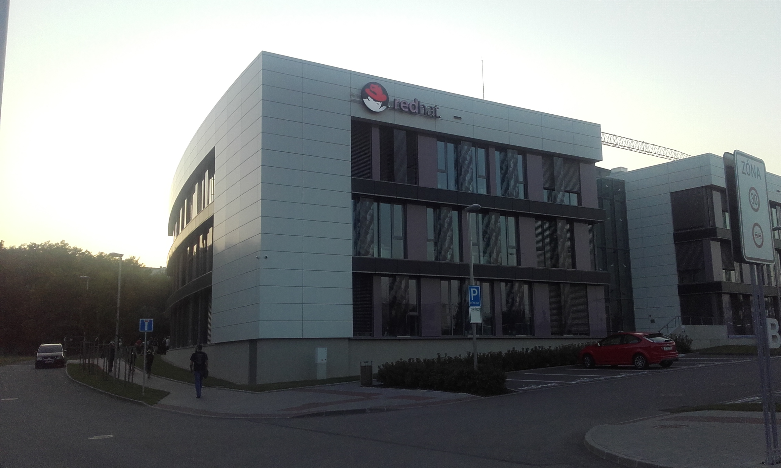 One of the Red Hat offices in Brno city.